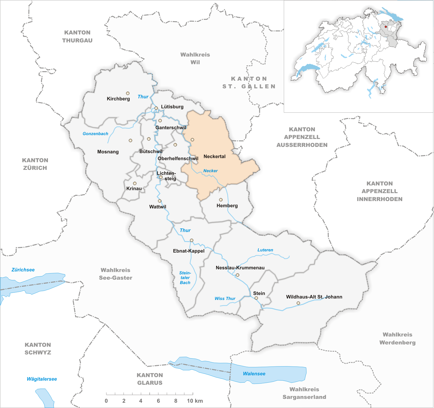 Municipality Neckertal